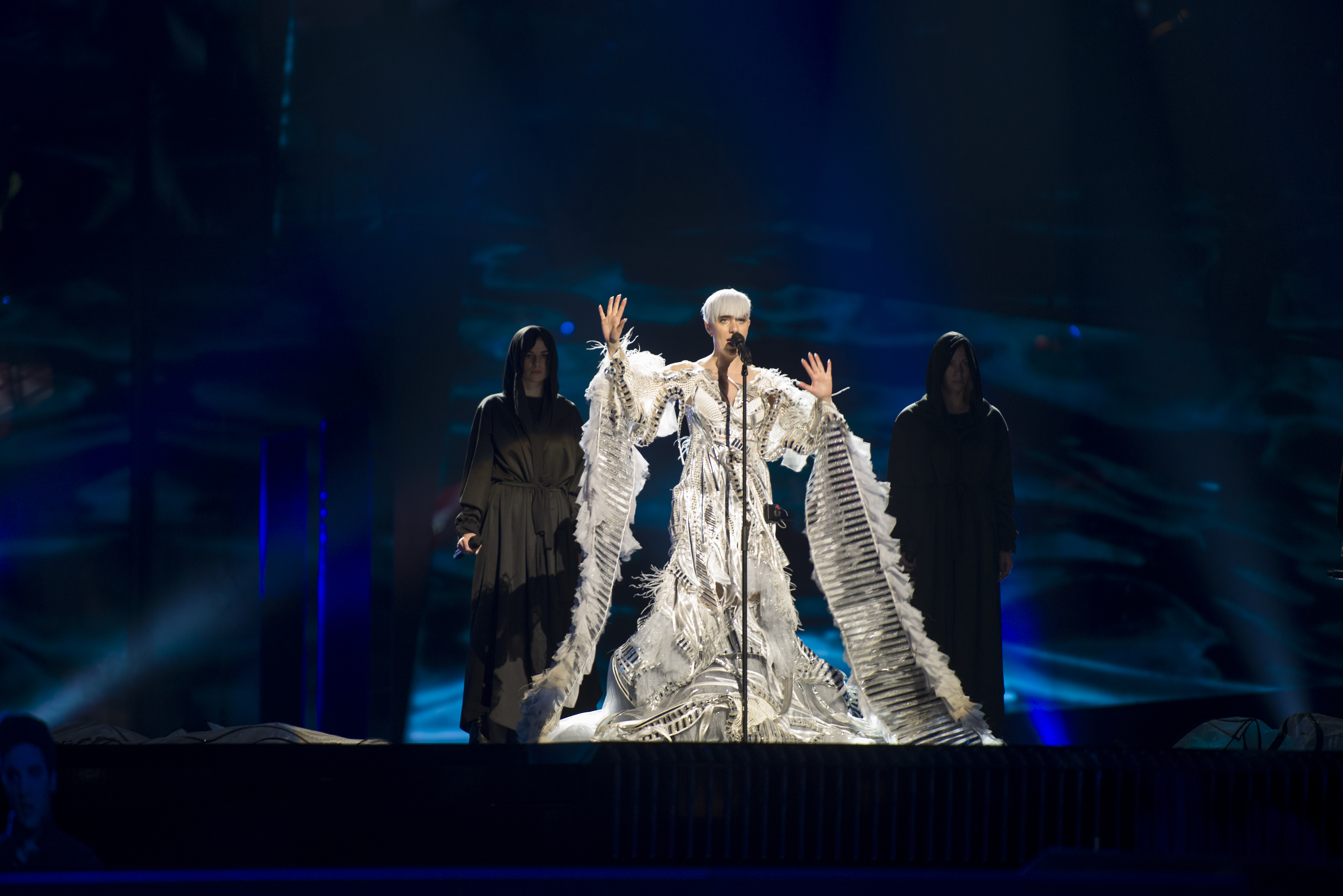 Nina Kraljić representing Croatia with the song "Lighthouse" during a rehearsal before the first semi final of the Eurovision Song Contest 2016 in Stockholm. (Help translate this text)